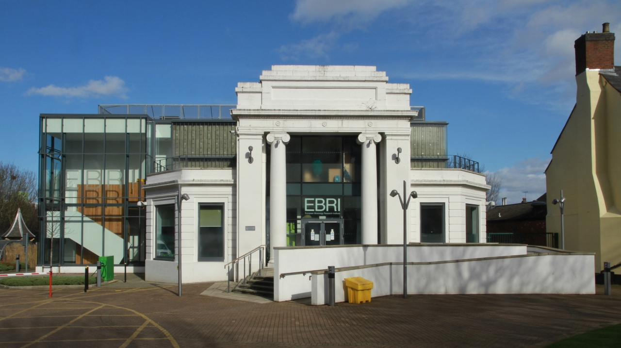 European Bioenergy Research Institute, 12 Gosta Green, Birmingham, seen from the southwest